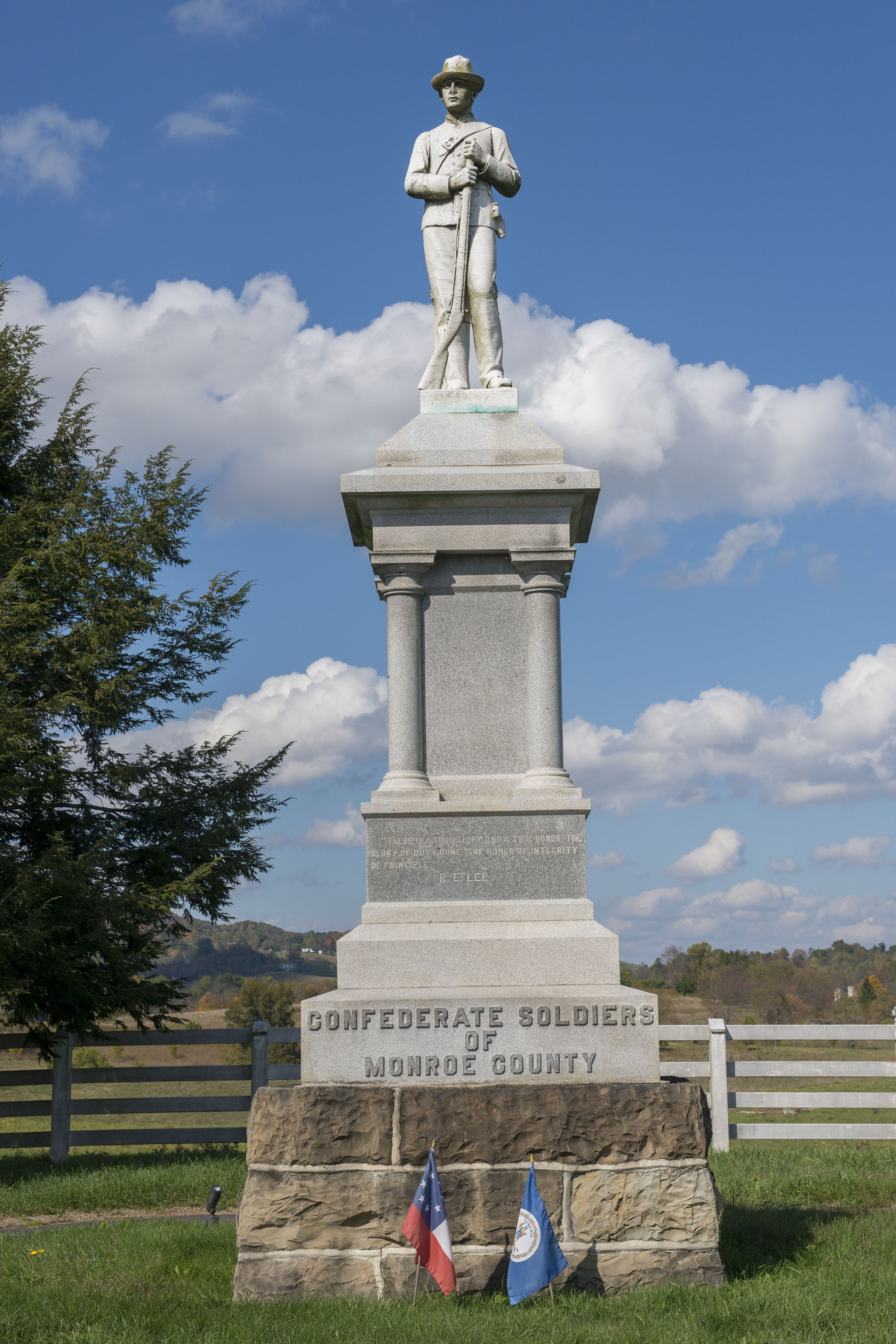 In a park just north of Union. Includes quote for Robert E. Lee